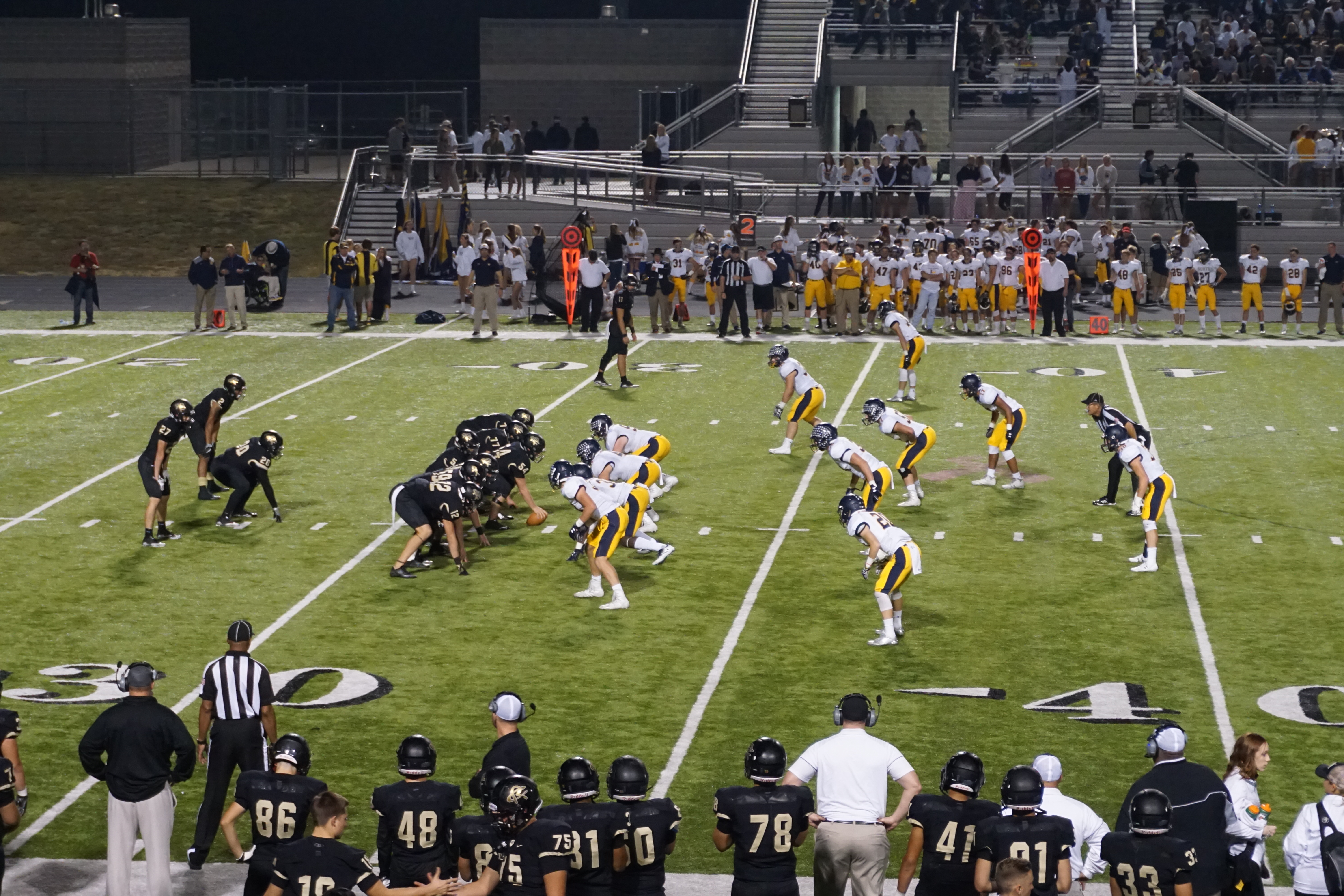 Royse City on offense during the Highland Park Scots vs. Royse City Bulldogs high school football game in Royse City, Texas (United States). Highland Park won 45–15.